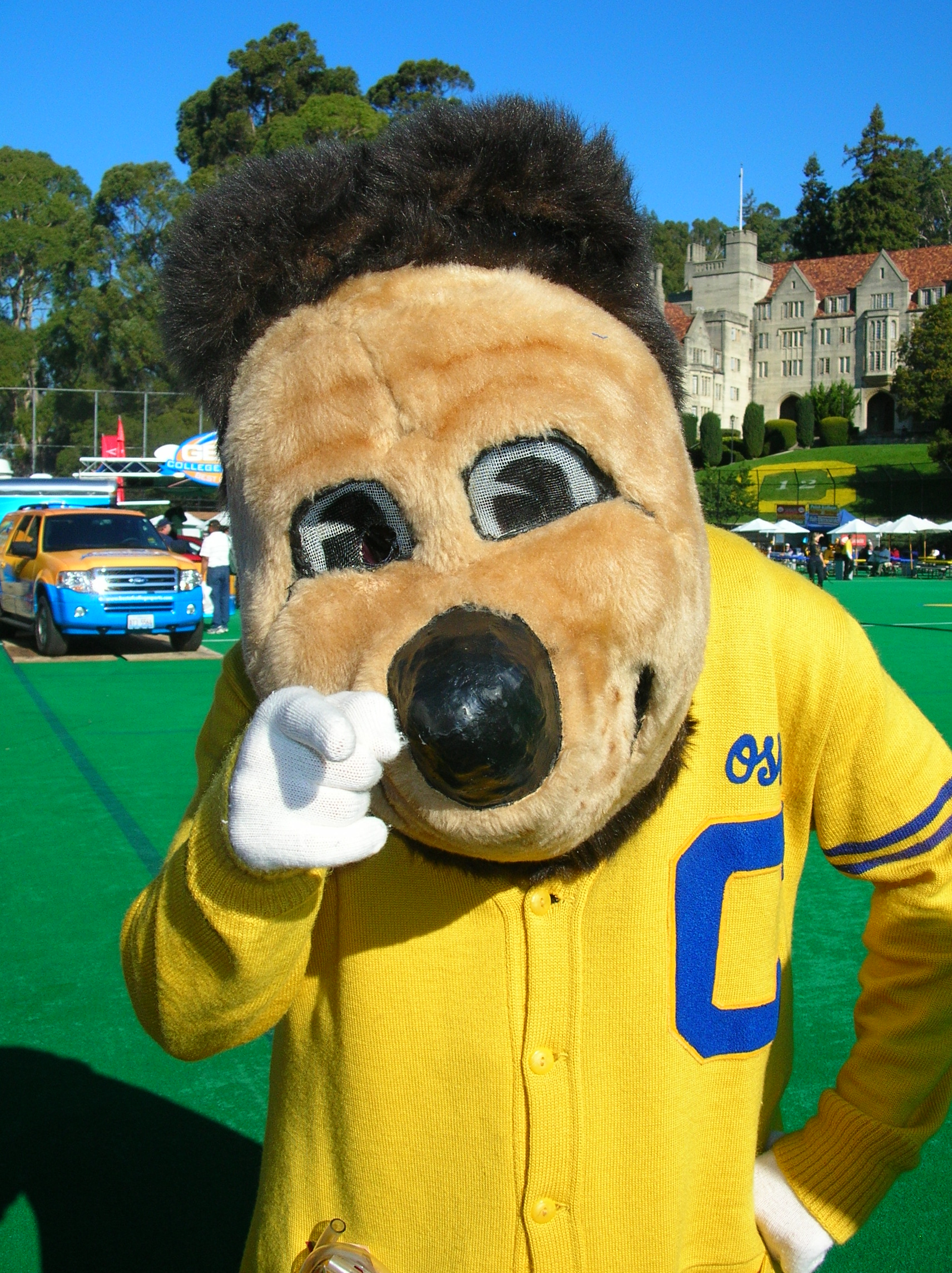 California Golden Bears mascot Oski at Maxwell Family Field prior to a Cal home football game against the UCLA Bruins. The Golden Bears won 41-20.